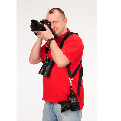 Fotografie z archivu Dalibor Johánek OEHLING CZ s.r.o. Personality rights warningAlthough this work is freely licensed or in the public domain, the person(s) shown may have rights that legally restrict certain re-uses unless those depicted consent to such uses. In these cases, a model release or other evidence of consent could protect you from infringement claims.